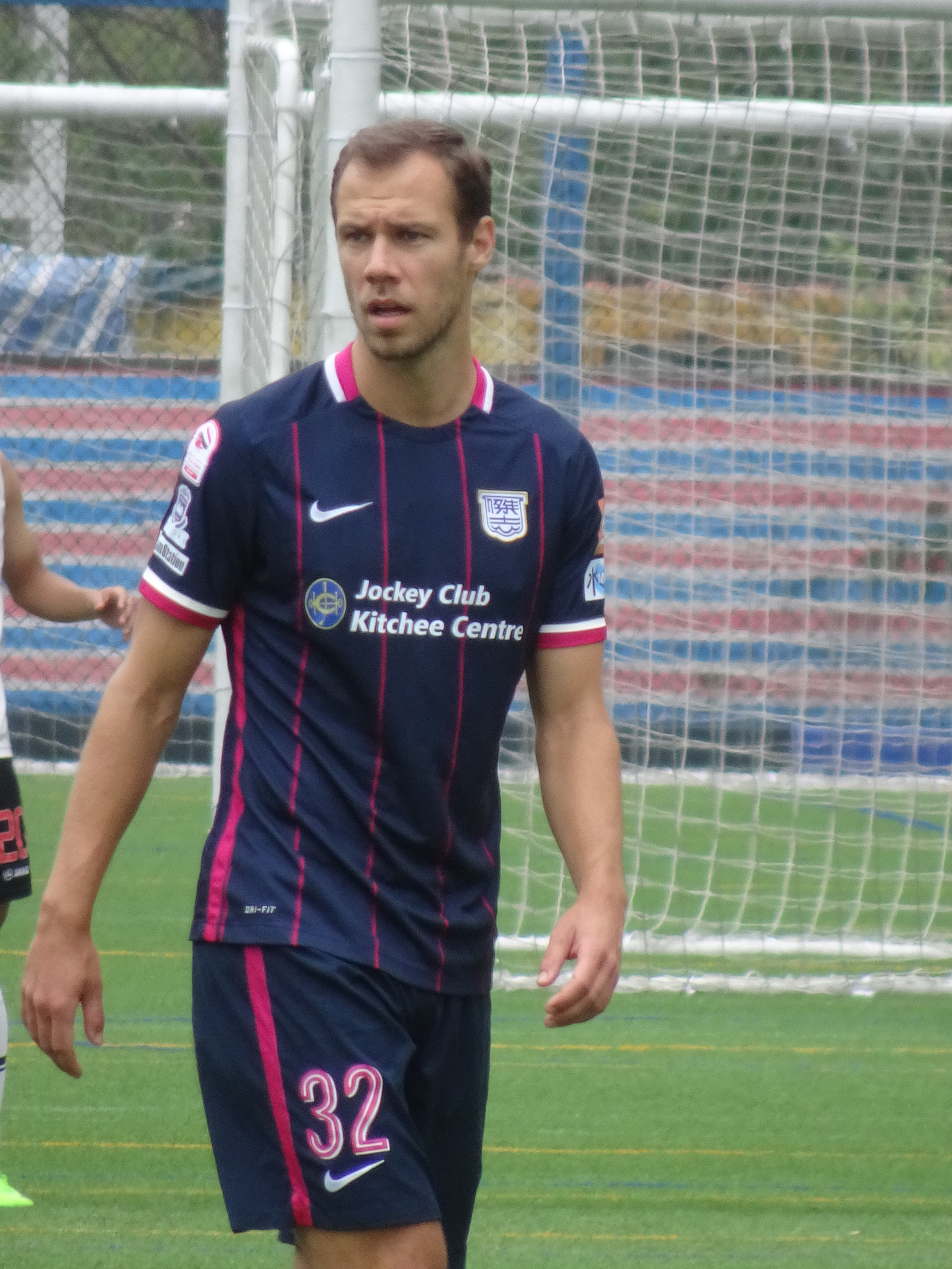 Krisztián Vadócz (23 Mar 2017, Kitchee vs Pahang FA, Friendly, Jockey Club Kitchee Centre) 中文（香港）: 華杜斯 (23 Mar 2017, 傑志 vs 彭亨, 友賽, 賽馬會傑志中心)